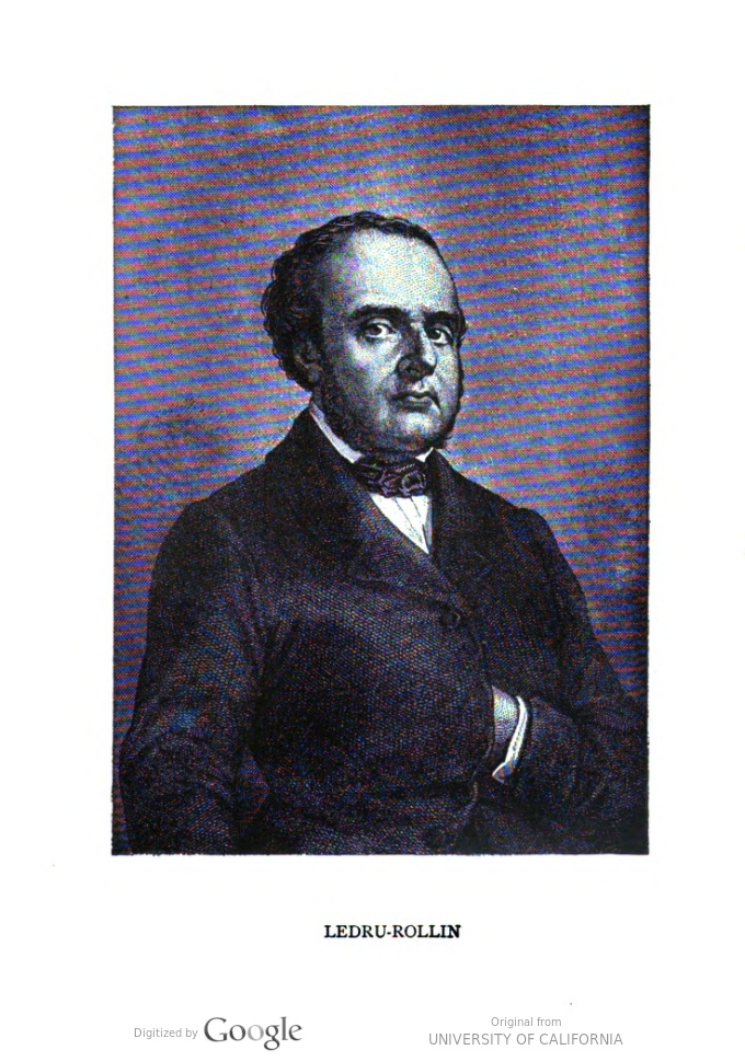 Alexandre Auguste Ledru-Rollin